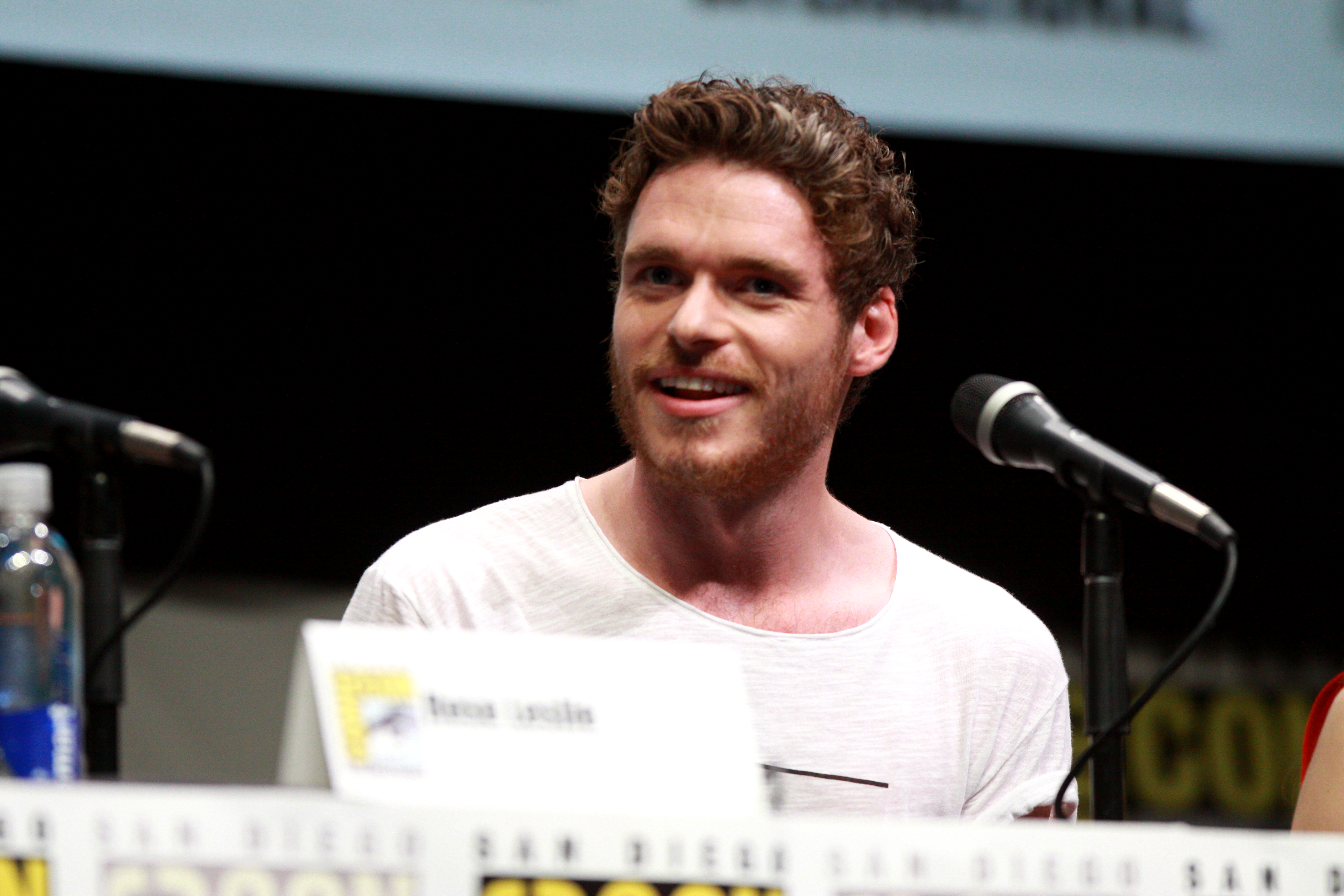 Richard Madden speaking at the 2013 San Diego Comic Con International, for "Game of Thrones", at the San Diego Convention Center in San Diego, California.